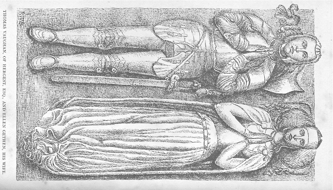 Thomas Vaughan of Hergest and Helen his wife Arch Camb Vol 2 1872